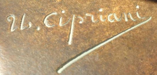 Ugo Cipriani's signature